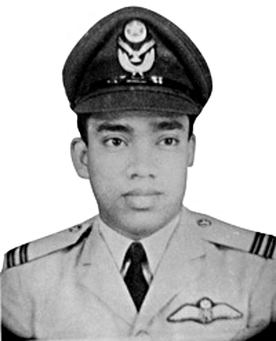 Bir Shreshto Flt. Lft. Matiur Rahman.